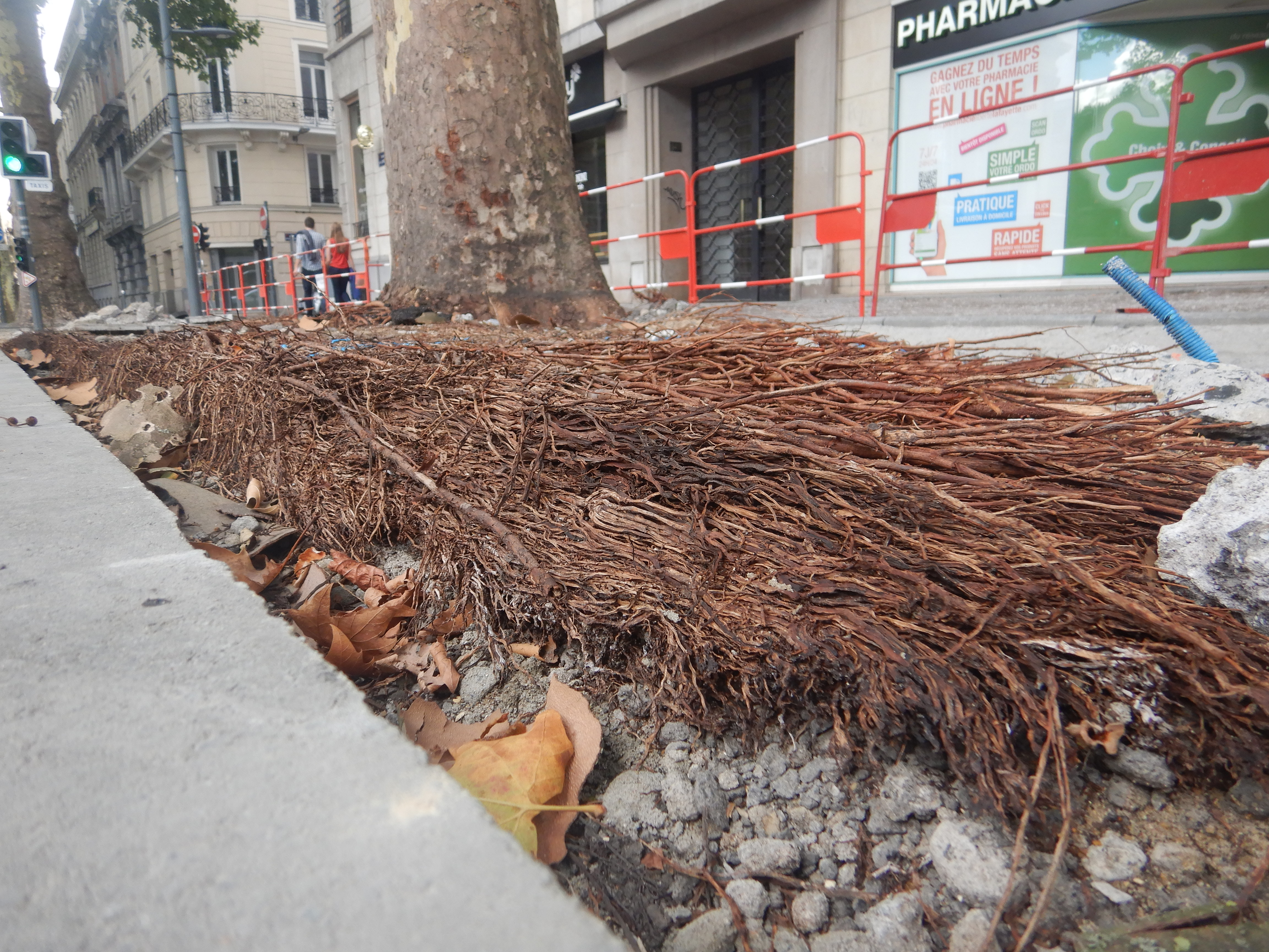 Photos made in Lille in 2017, downtown after removing the tar from a sidewalk near the prefecture. This "root mat" (more than 20 cm thick over several square meters) developed between a layer of tar (curb surface) and a layer of industrial cement waste (visibly phytotoxic).